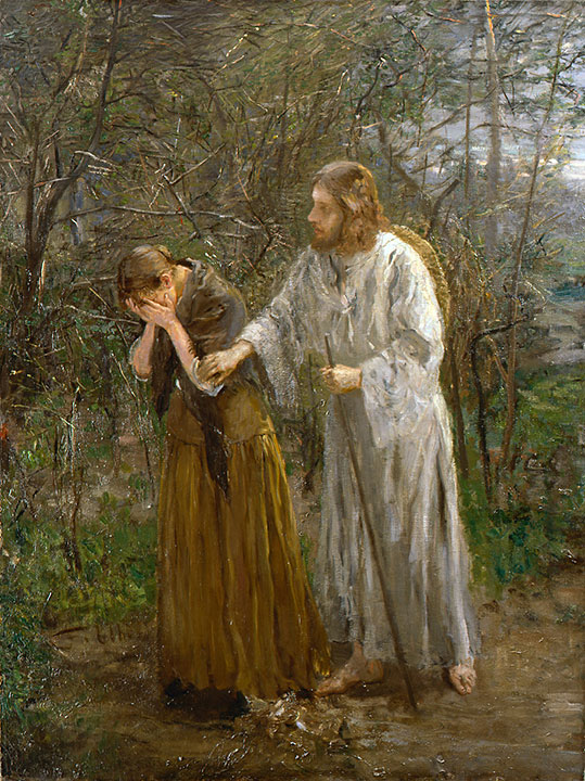 Uhde painting inspired in John 20:15